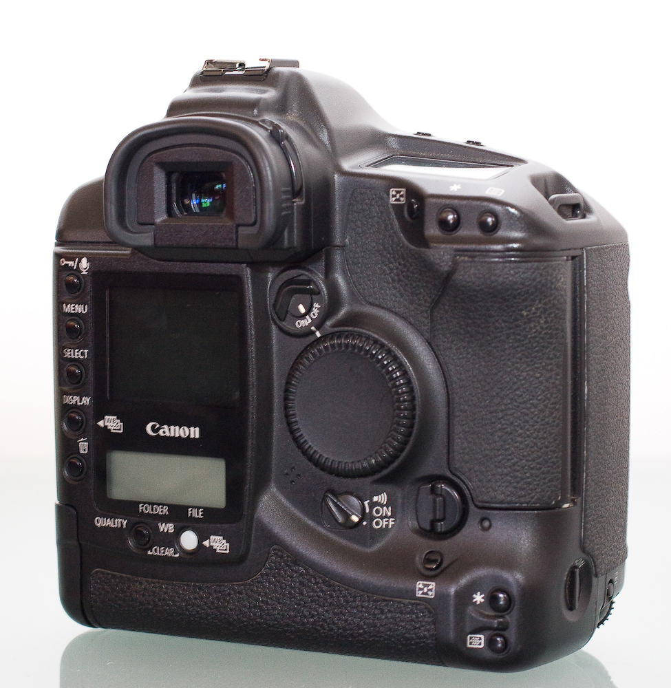 Canon EOS-1Ds professional digital single-lens reflex camera.